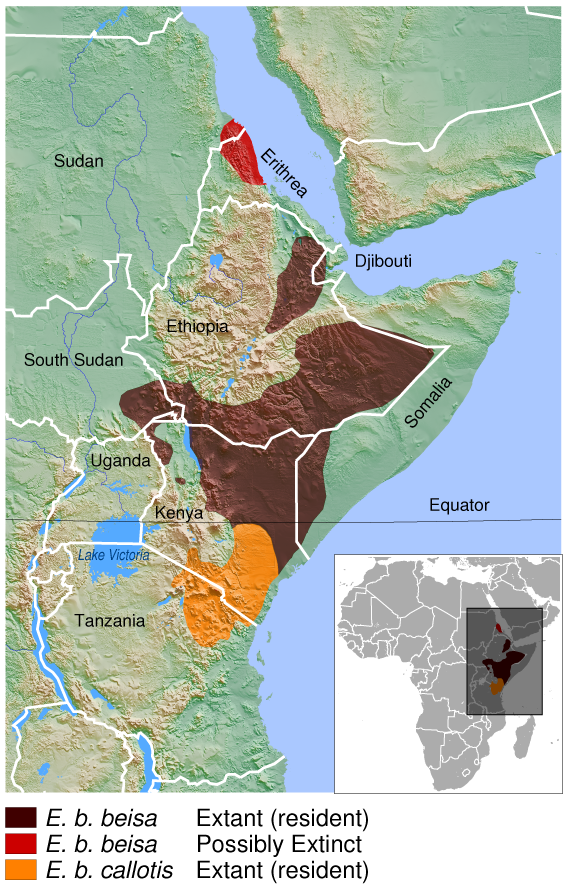 Geographical distribution of the East African oryx Oryx beisa. The map was created using the Generic Mapping Tools, GMT, version 5.1.2.